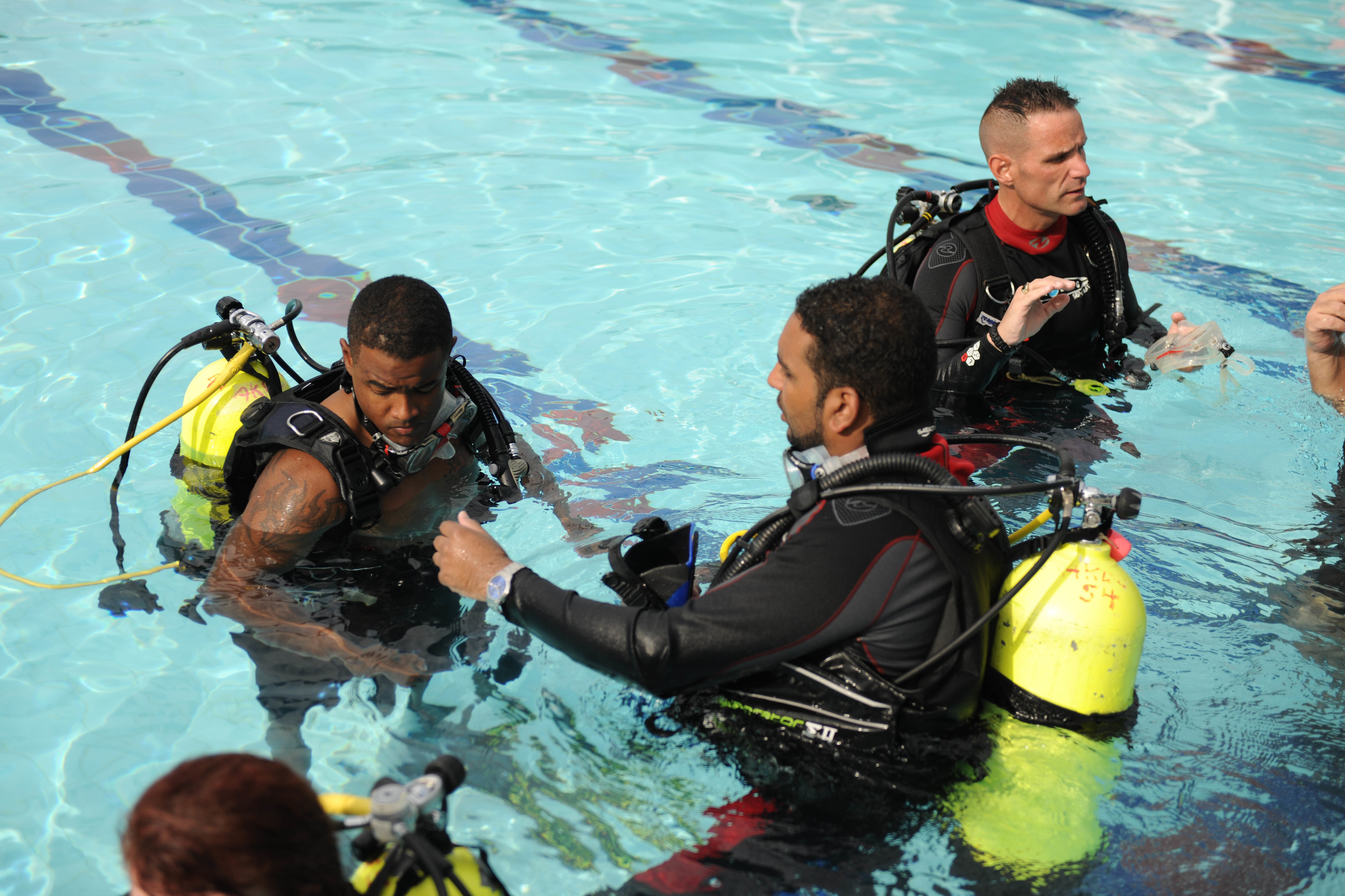 Staff Sgt. Enrique Ford, an operations noncommissioned officer with the area support group-Qatar Department of Public Works, teaches soldiers and airmen the basics of scuba diving. Ford is a member of the Sea Dragons, a local scuba diving club.